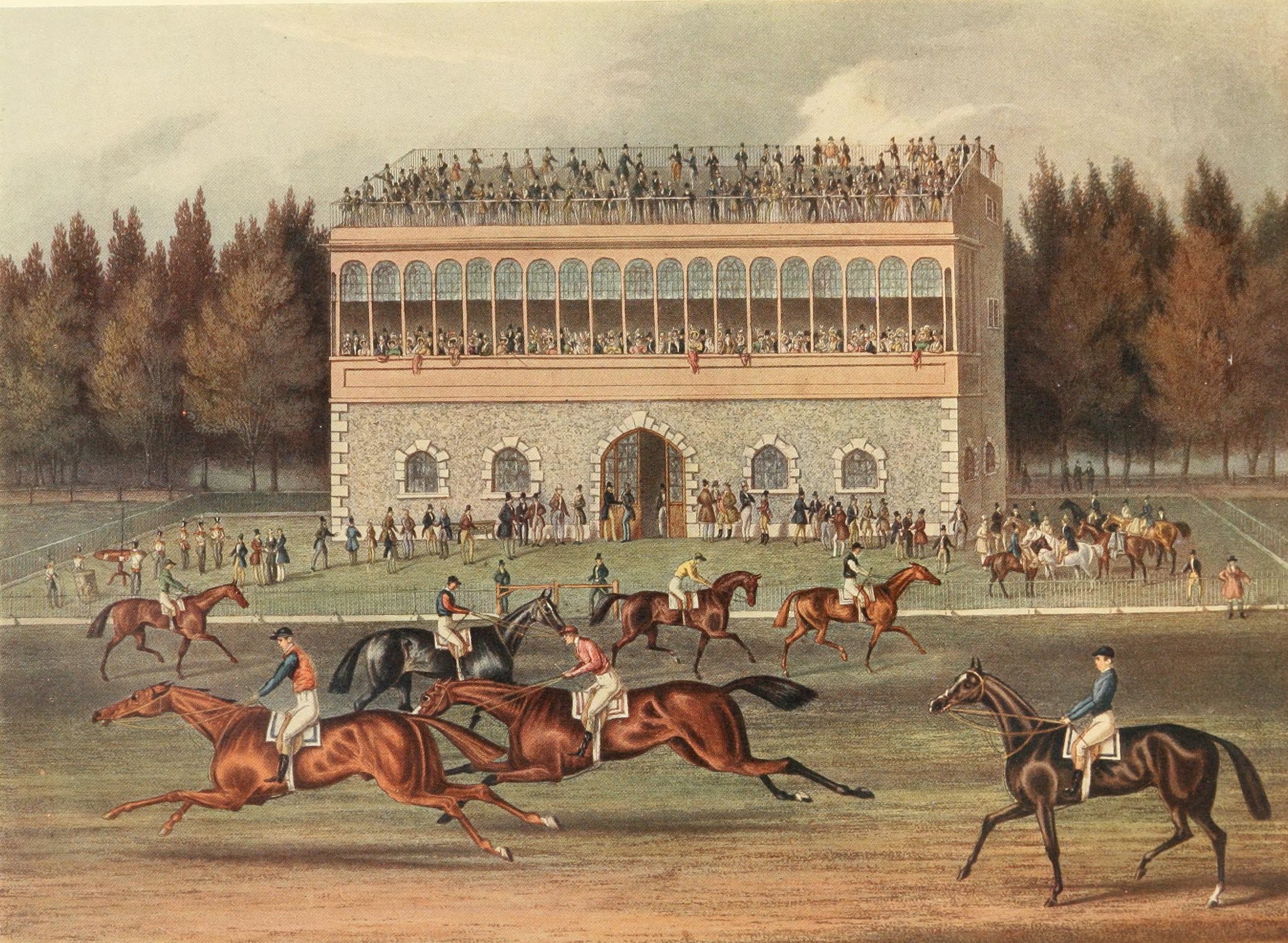 Goodwood Grand Stand Preparing to Start